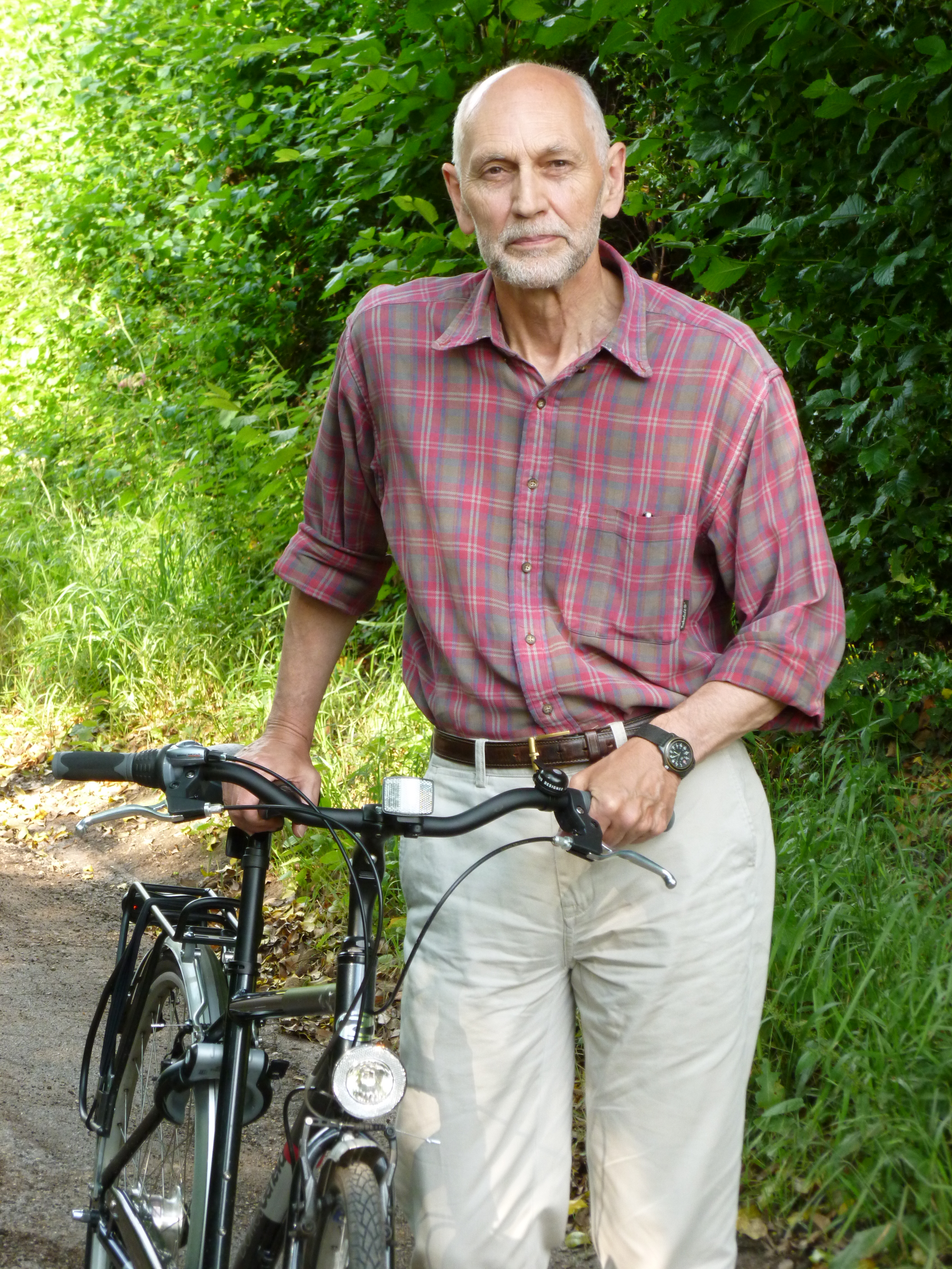 Photo of Gregory Currie